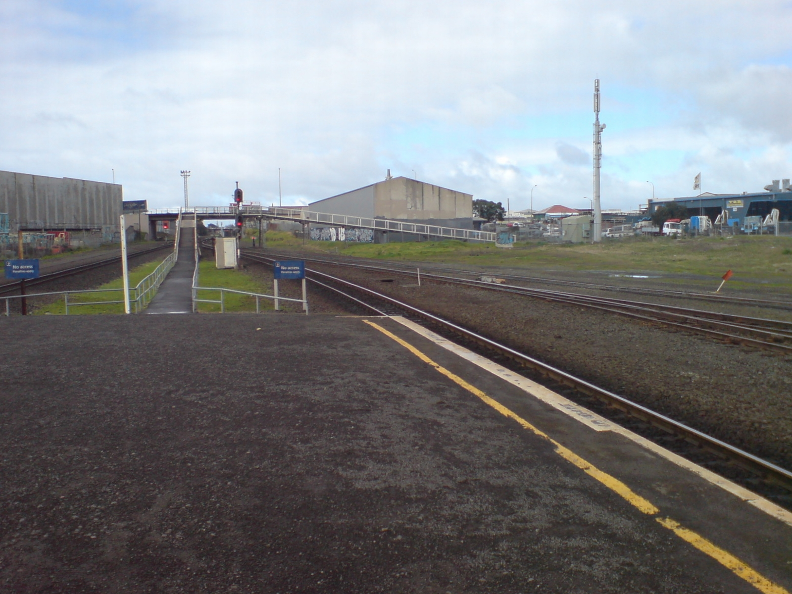 Otahuhu Train Station in Auckland City, New Zealand. Looking south at the overbridge, one can see why this station is considered one of the worst-maintained and most unfriendly ones on the network.